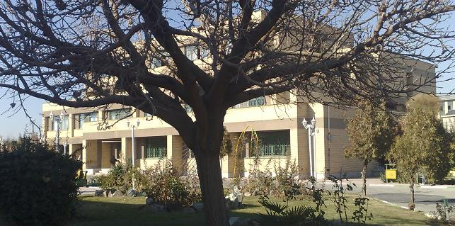 Music Faculty of the Tehran University of Art (located in Karaj)